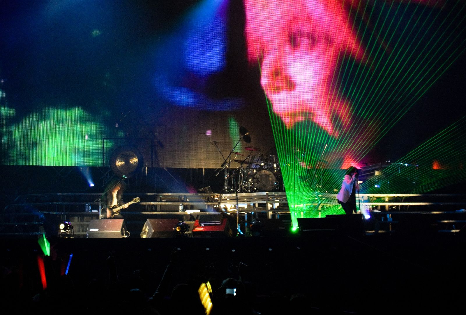 X Japan performing live in Hong Kong on January 16, 2009, with an image of their deceased bandmate hide on screen.